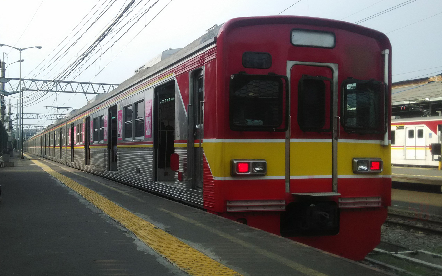 10-car former Toyo Rapid 1000 series set 1080 at Bogor Station in West Java, Indonesia, in July 2017. Previously an 8-car set since its arrival in Indonesia in 2006, it was reformed as a 10-car set in May 2017 by adding cars 1094 and 1095 from fellow former Toyo Rapid 1000 series set 1090.